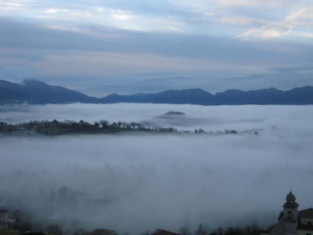 View of Comino's Valley from Alvito, Italy.